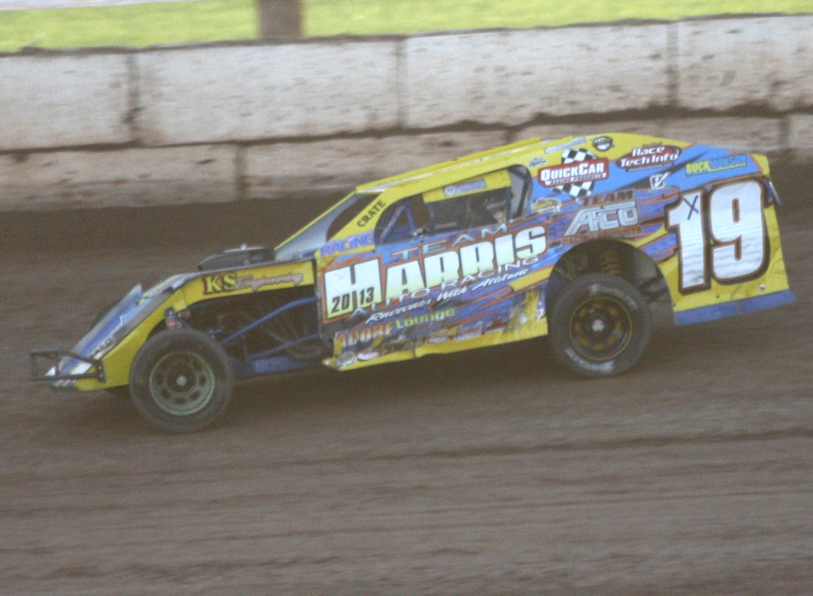 The IMCA Modified car of Jimmy Gustin competing in a Badger Modified Tour race at 141 Speedway in Wisconsin. He won the IMCA SuperNationals race in 2010.